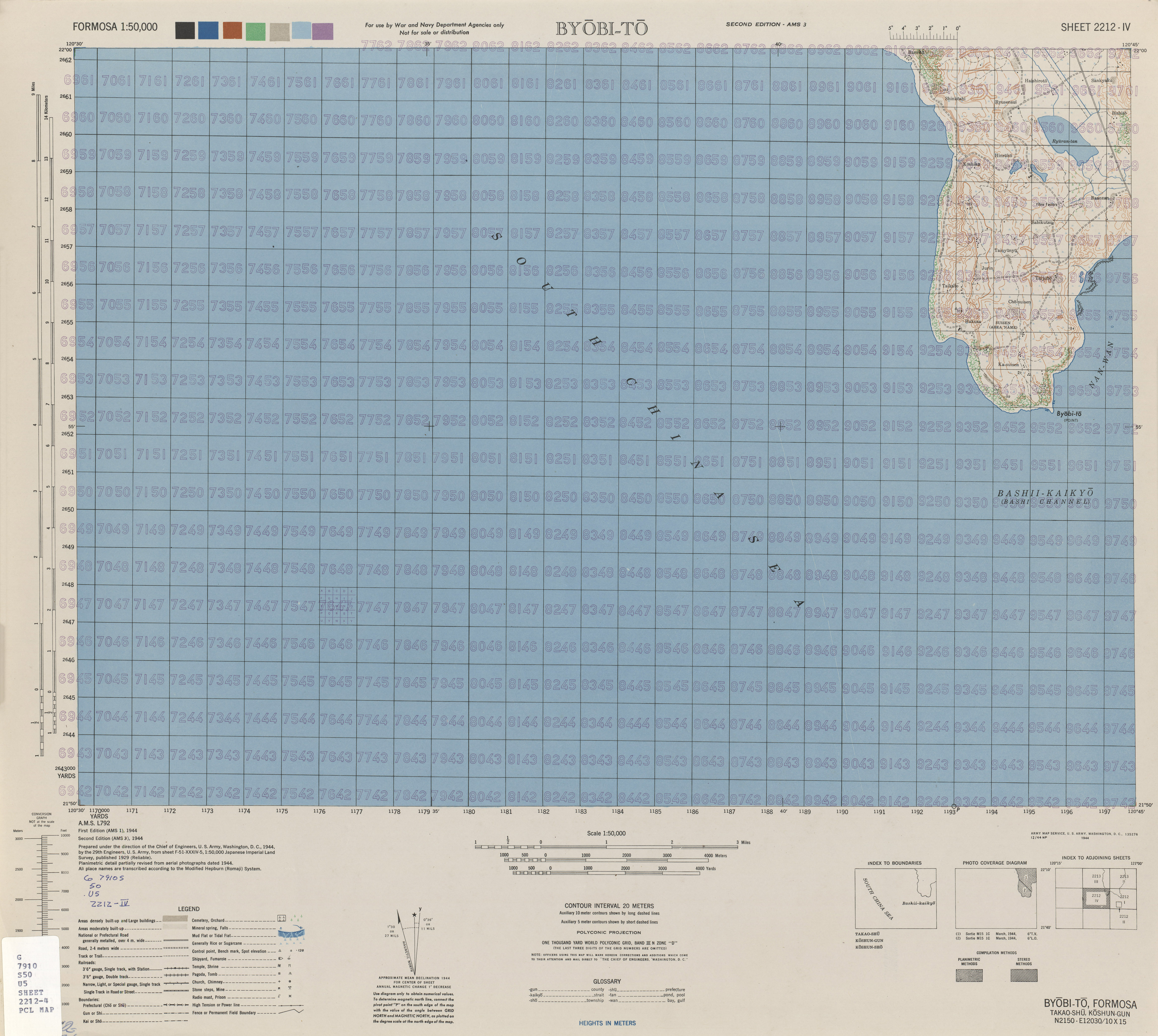 Map of Cape Maobitou (Byōbi-tō) area from Formosa (Taiwan) 1:50,000 AMS Series L792